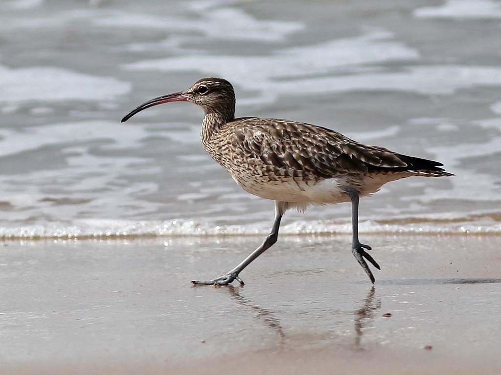 They are found in large numbers on the beaches of Kerala, usually in the cooler months. This species feeds by probing soft mud for small invertebrates and by picking small crabs and similar prey off the surface. Prior to migration, berries become an important part of their diet.